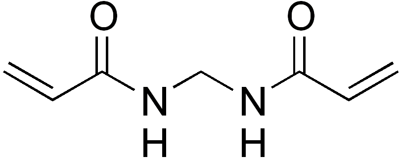 Chemical structure of N,N'-Methylenebisacrylamide